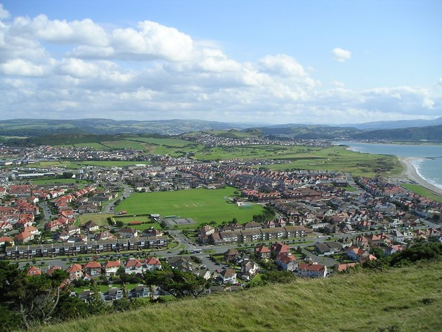 The Oval Sports and Cricket Ground Mid foreground is Salisbury Court leading to Gloddaeth Avenue (dual carriageway) beyond The Oval (roadway) to left Llys Maelgwn residential flats to right are Manor Park residential flats. The Oval sports and cricket ground with crown green bowling club (lower left) and cricket pavilion (centre right).